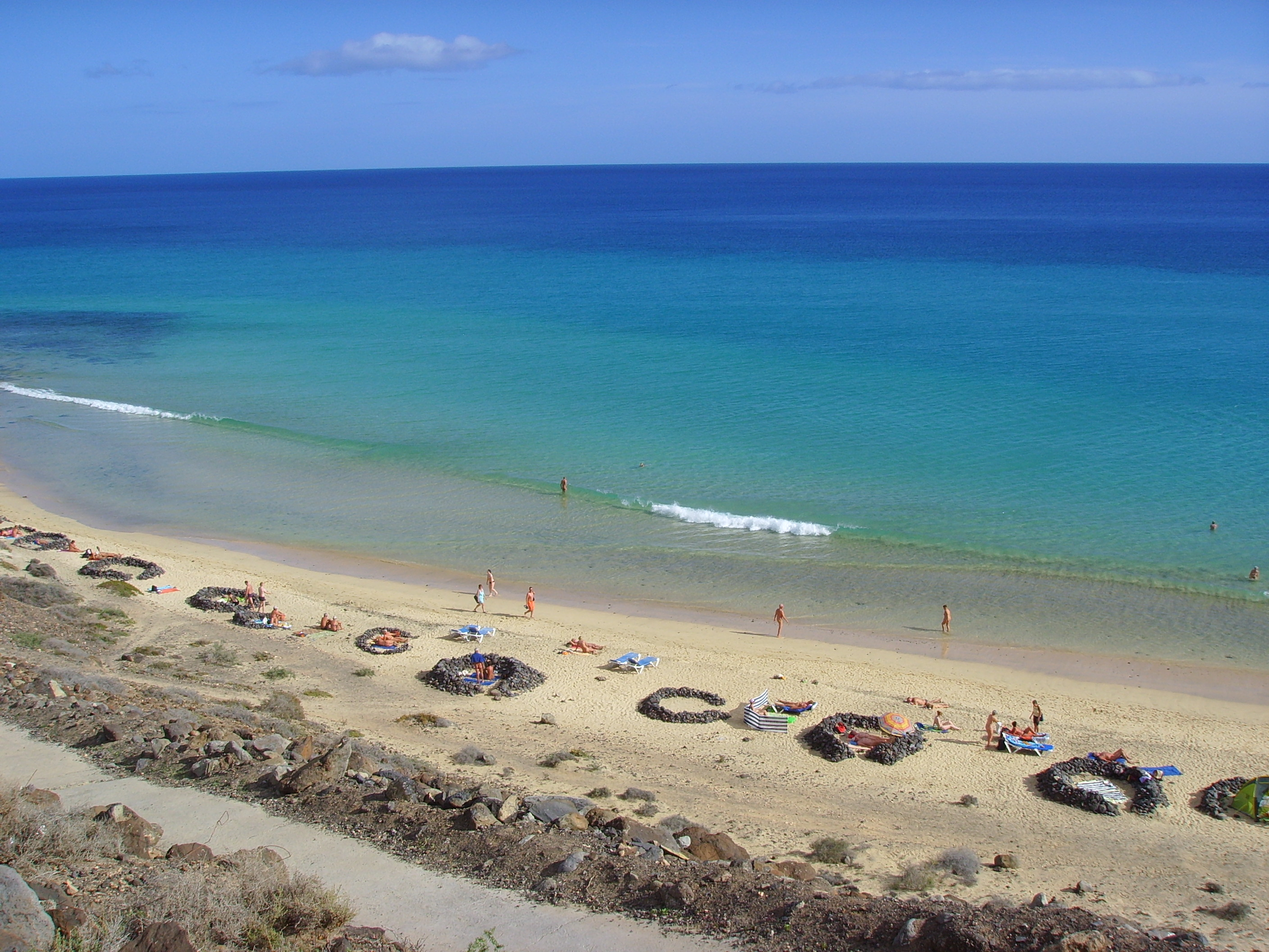 Beach beneath Urbanización Esquinzo, Fuerteventura (viewing direction: east)